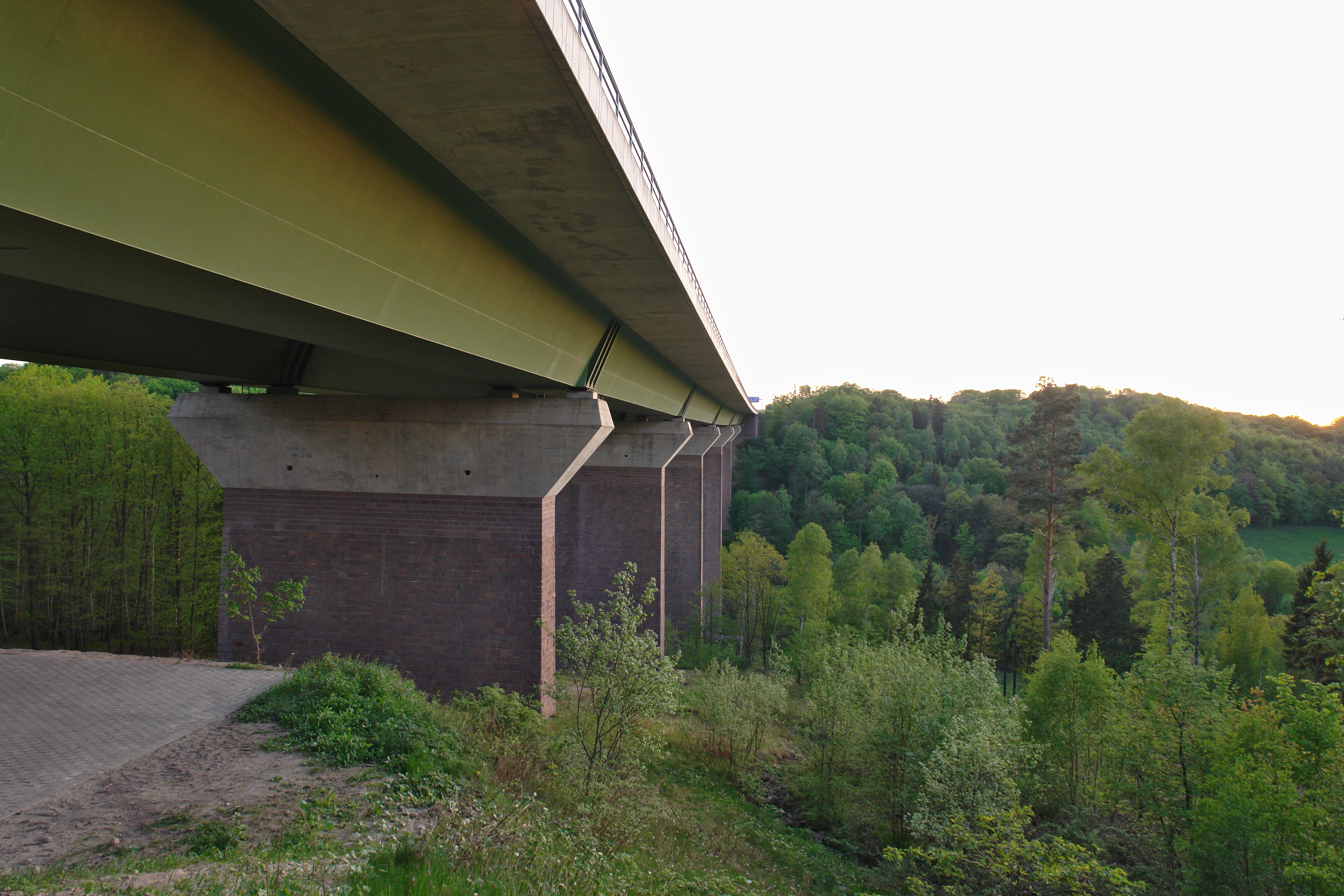 "Siebenlehn" highway bridge (Bundesautobahn 4) over the Freiberger Mulde, Nossen, Saxony (Germany)